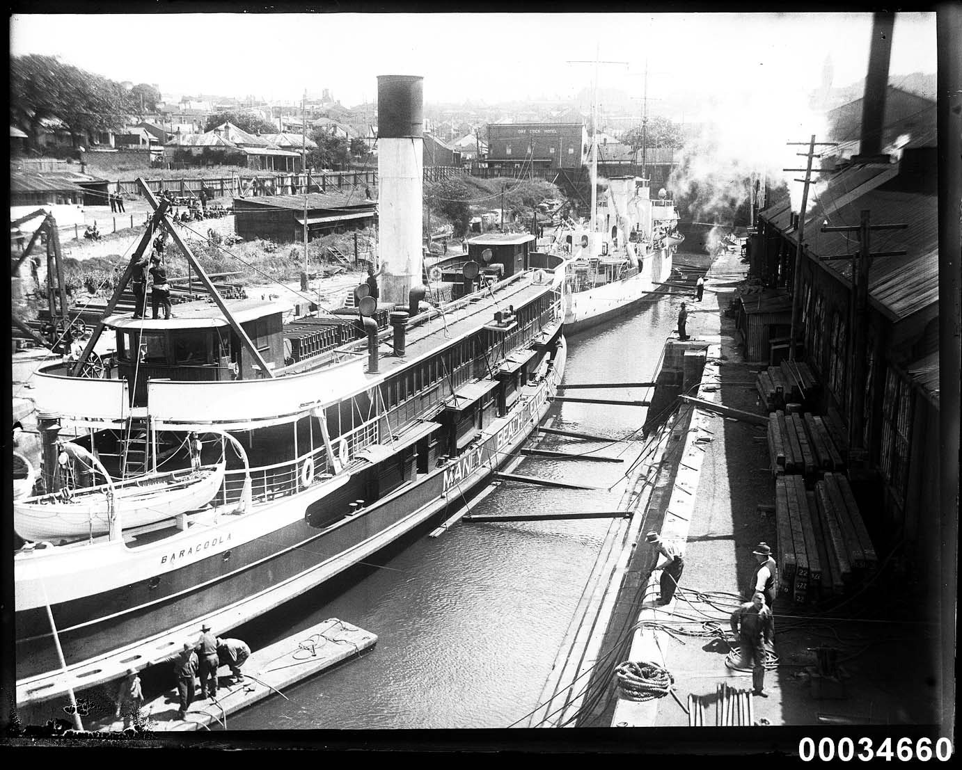 This image depicts the Manly ferry SS BARAGOOLA with the French naval sloop BELLATRIX behind in Morts Dock in Balmain, Sydney. BARAGOOLA was built in 1922 and remains the last surviving original Sydney built Manly ferry. BELLATRIX visited Sydney in December 1929, December 1930 and July 1932 and was commanded by Commander Jells, Captain M Bastard and Commandant Constantan respectively. Each time, it docked in Morts Dock in Balmain for its 'annual overhaul' (The Sydney Morning Herald, 3 February 1931). For more information on BARAGOOLA see the Australian Register of Historic Vessels bit.ly/LOslUW This photo is part of the Australian National Maritime Museum’s Samuel J. Hood Studio collection. Sam Hood (1872-1953) was a Sydney photographer with a passion for ships. His 60-year career spanned the romantic age of sail and two world wars. The photos in the collection were taken mainly in Sydney and Newcastle during the first half of the 20th century. The ANMM undertakes research and accepts public comments that enhance the information we hold about images in our collection. This record has been updated accordingly. Photographer: Samuel J. Hood Studio Collection Object no. 00034660